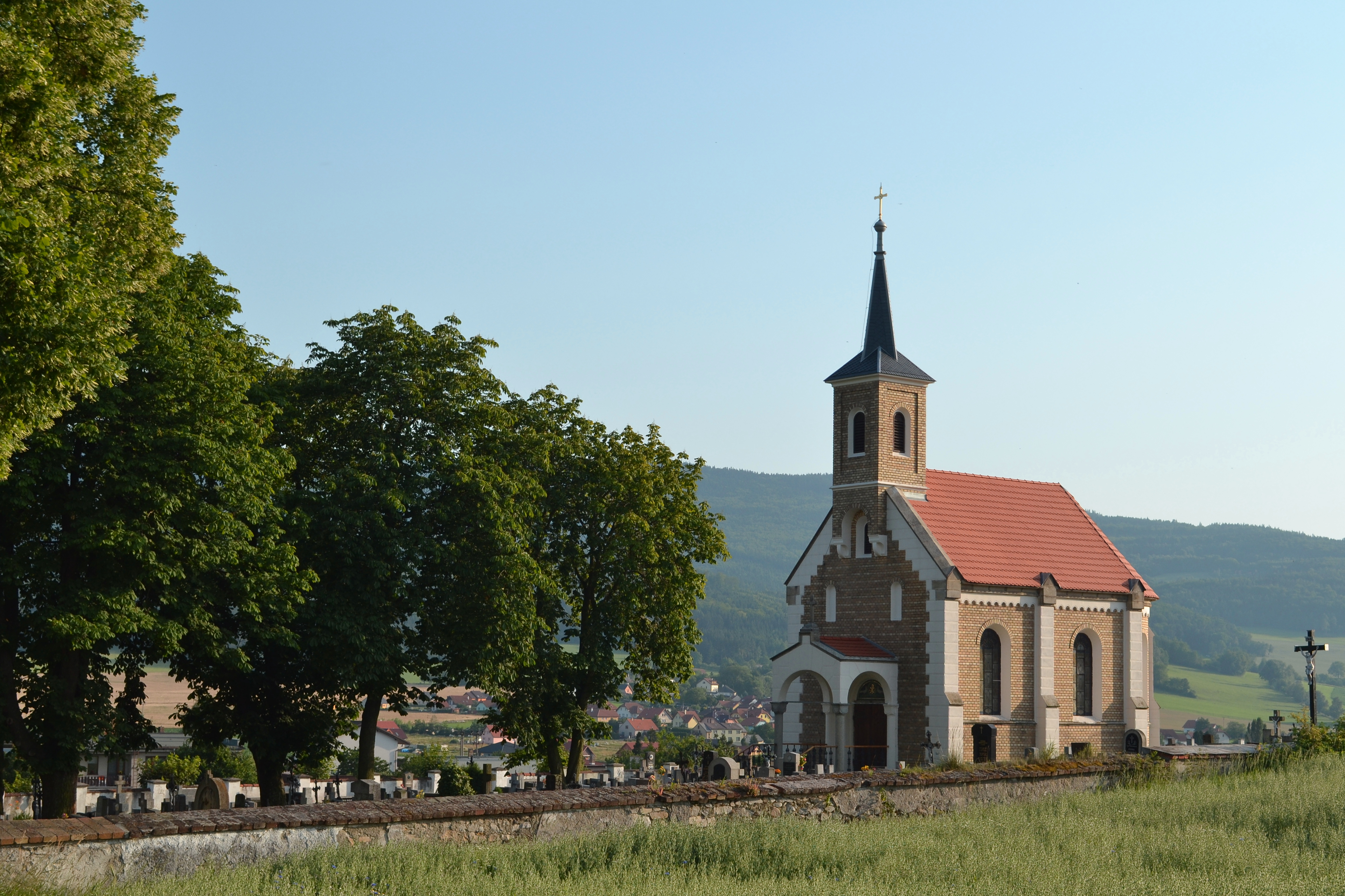 St. Ursula chapel and cemetery in Křemže, South Bohemian Region, Czech Republic.